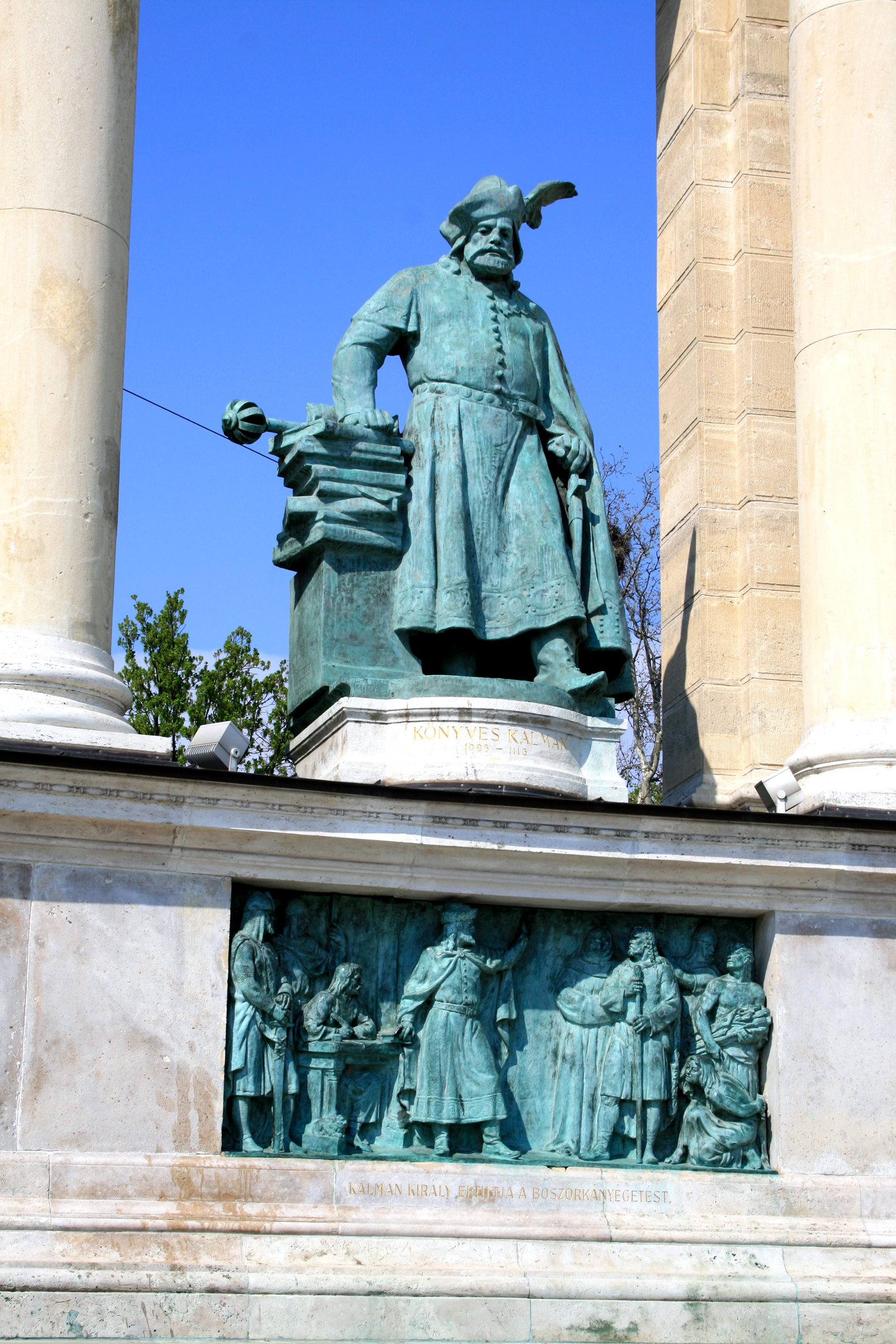 Statue of Coloman of Hungary - Coloman of Hungary, Millenium Monument on Heroes' square, Budapest, Budapest, Hungary